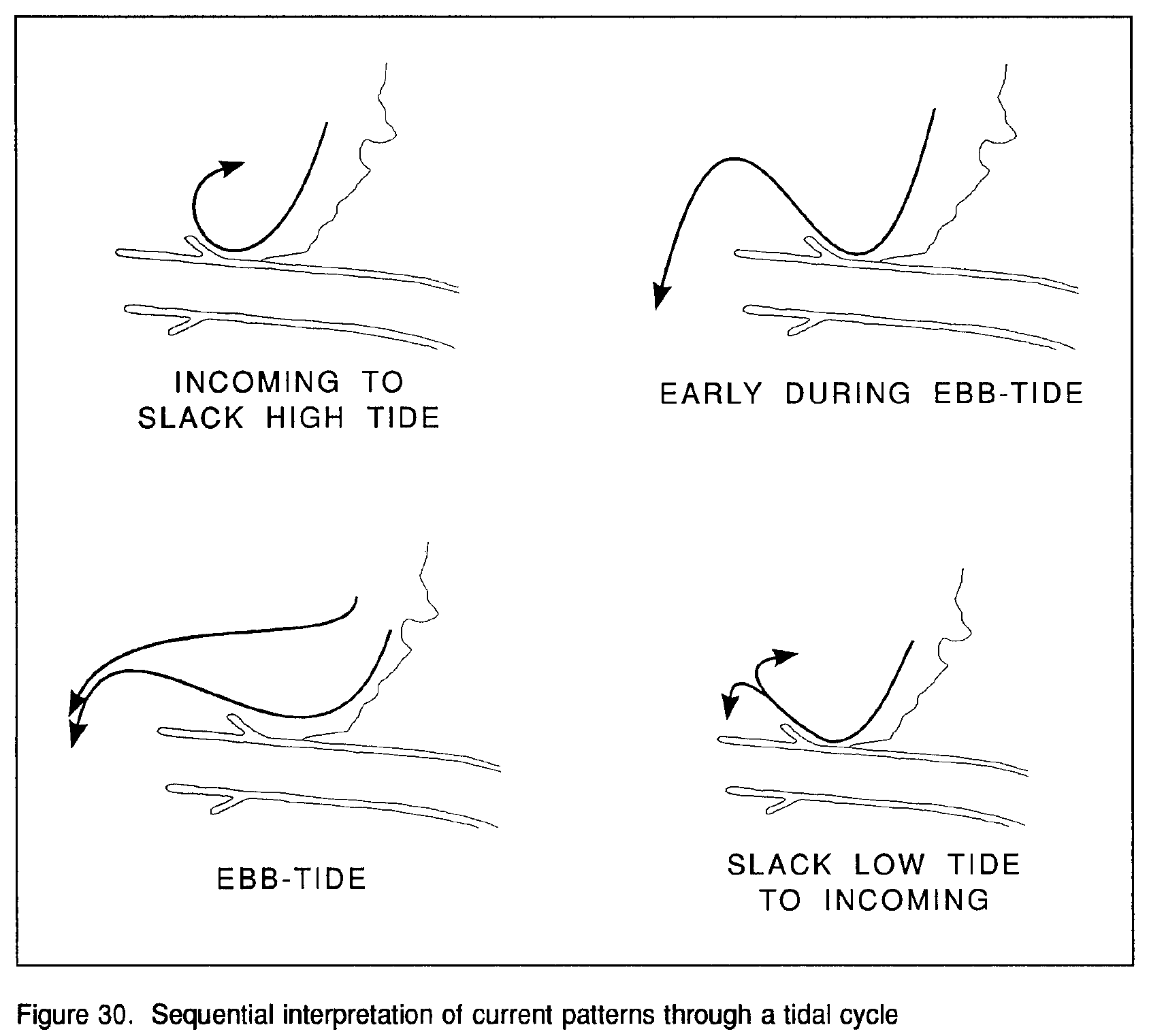 Sequential interpretation of current patterns through tidal cycle at Siuslaw River jetties